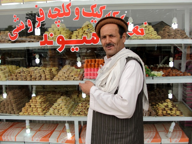 Man in Afghan clothing in front of a shop window with pyramid of sweetmeats.